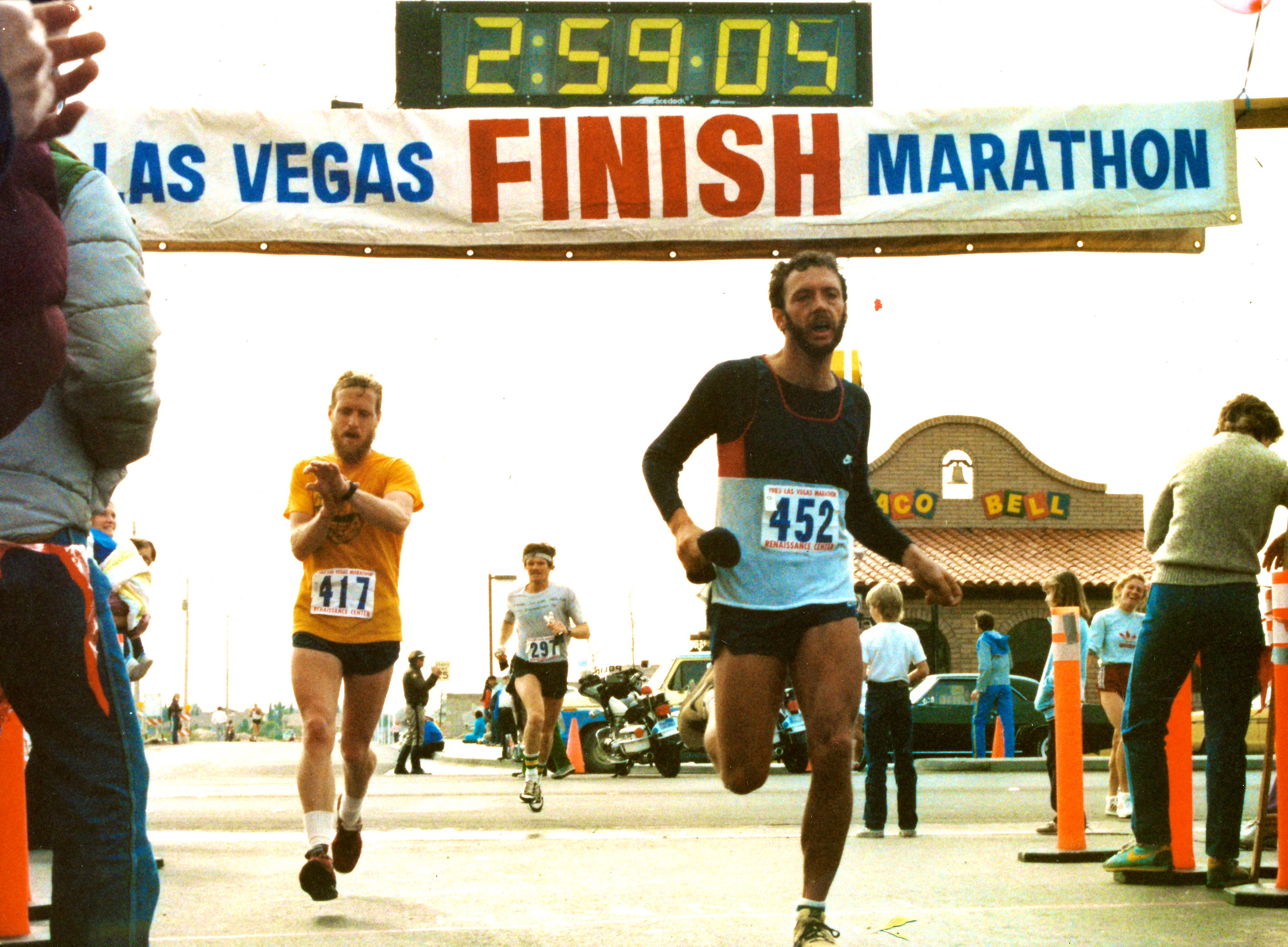 The 1983 finishline at the Renaissance Center in suburban Las Vegas.